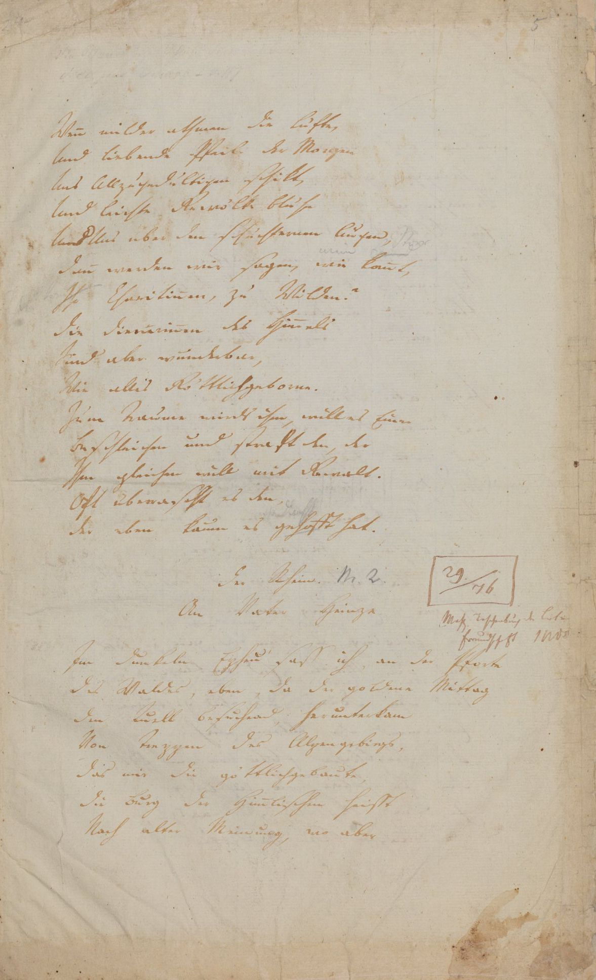 Manuscript of Friedrich Hölderlins poem "Der Rhein", Württembergische Landesbibliothek, page 1